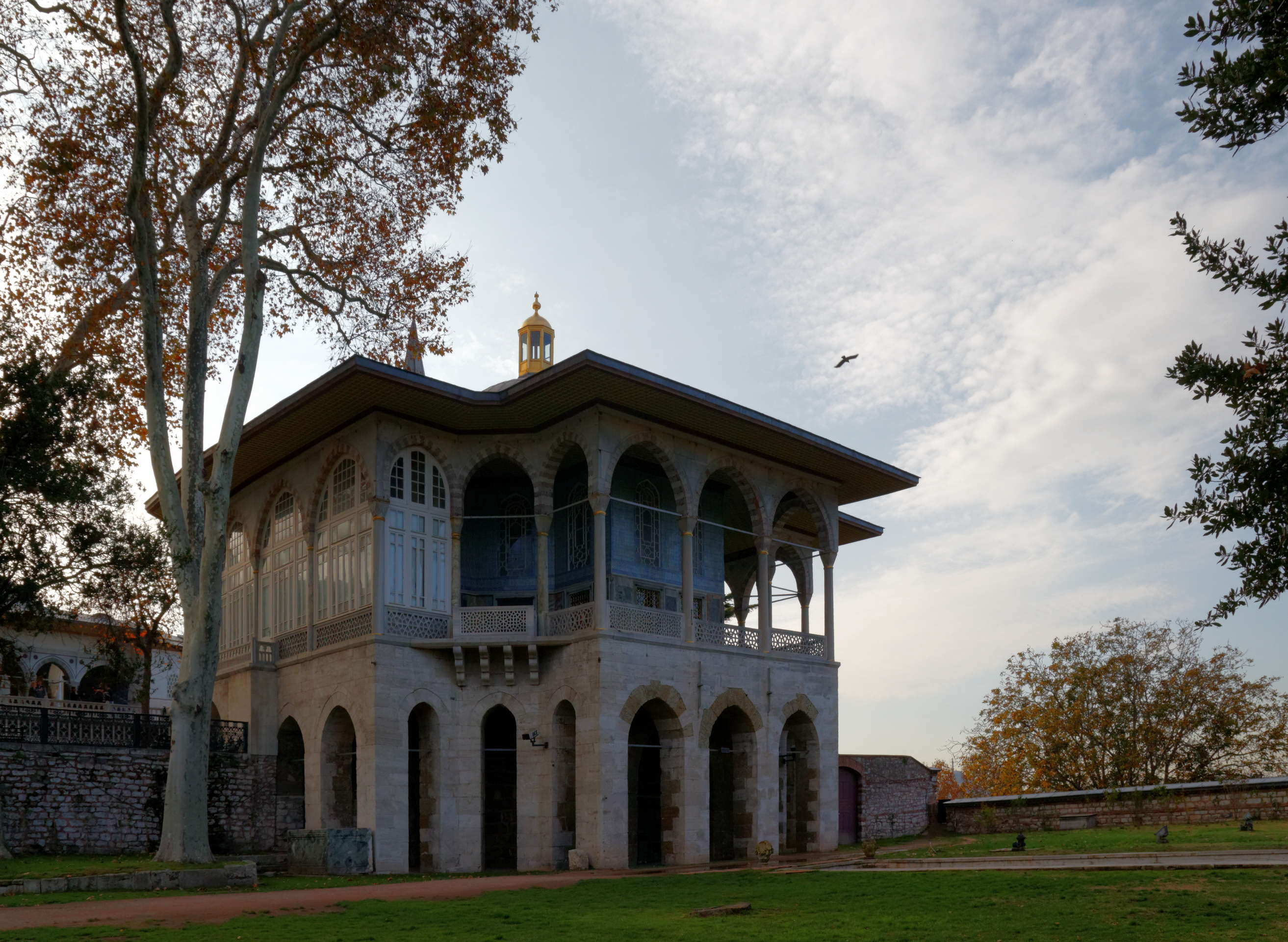 Istanbul. Topkapı Palace. Baghdad Kiosk